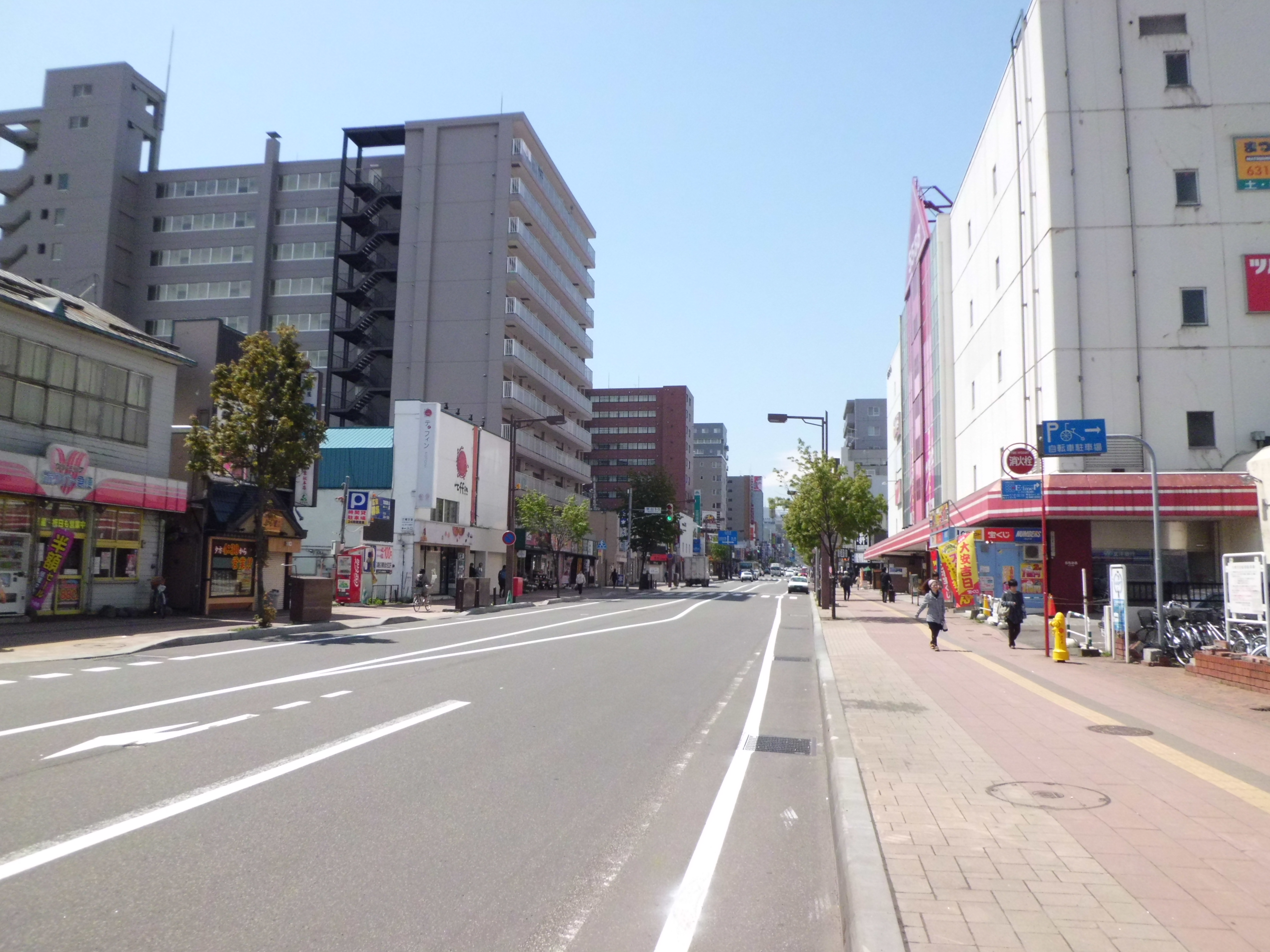 Hokkaido prefectural road 276 Kotoni Station line. Looking southwest from the station.